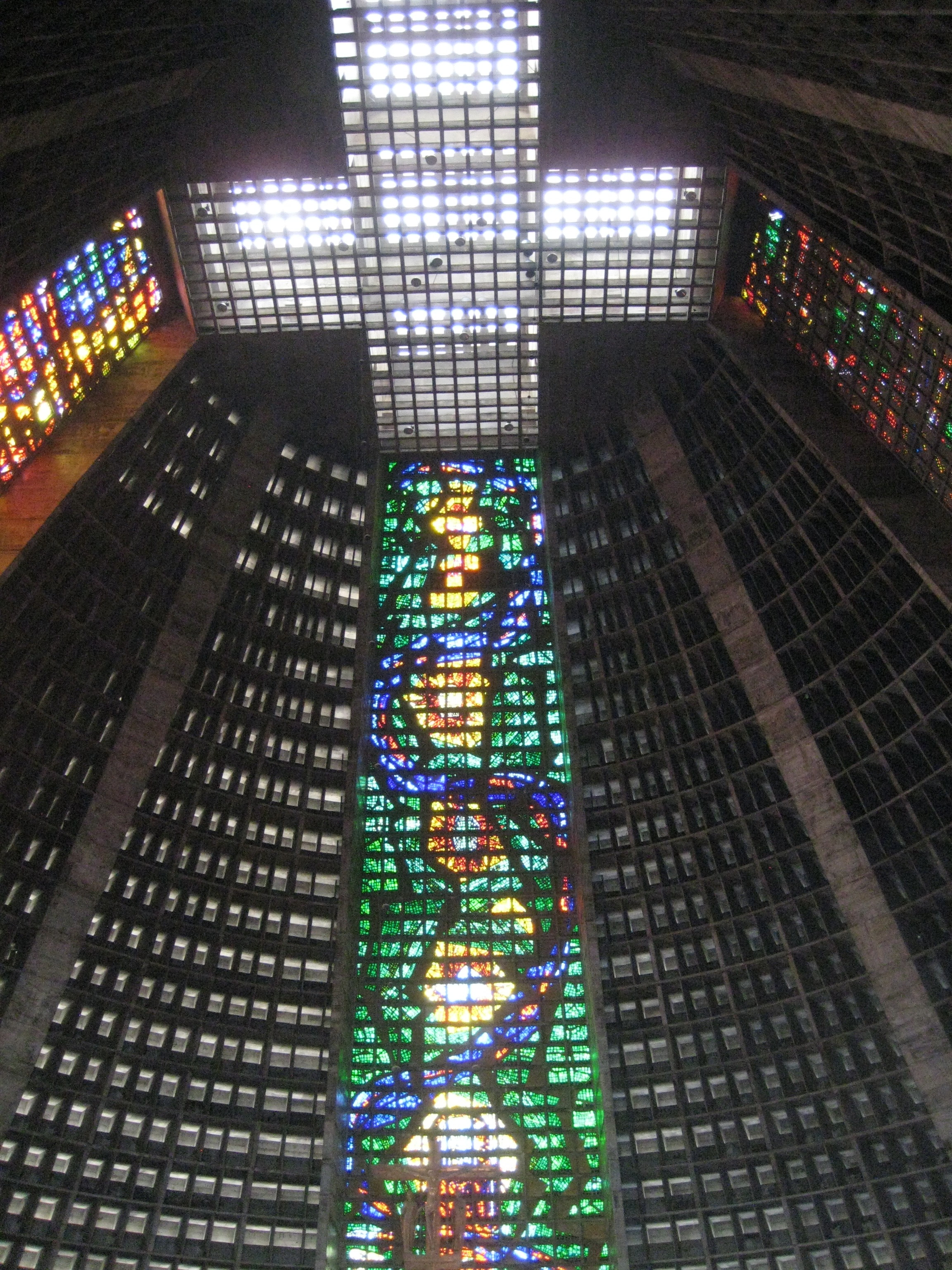 The interior of the cathedral